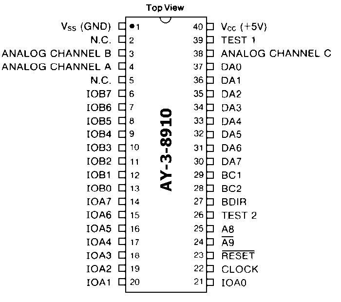 Pinout AY-3-8910